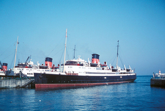 TSS Mona's Queen (1946) at Douglas. In 1961, the Isle of Man Steam Packet Company were still operating traditionally styled ships such as this. They connected Douglas with Ardrossan, Llandudno, Douglas and Belfast as well as the traditional Lancashire ports of Liverpool and Fleetwood. The demand for ro-ro vessels had not then emerged.